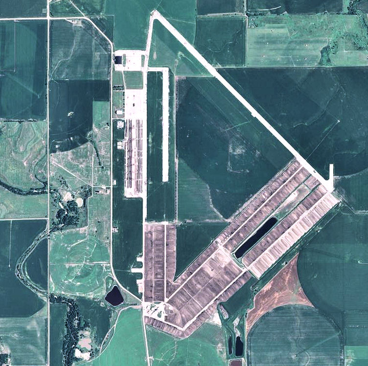 USGS digital orthophoto of Bruning Army Airfield in Nebraska